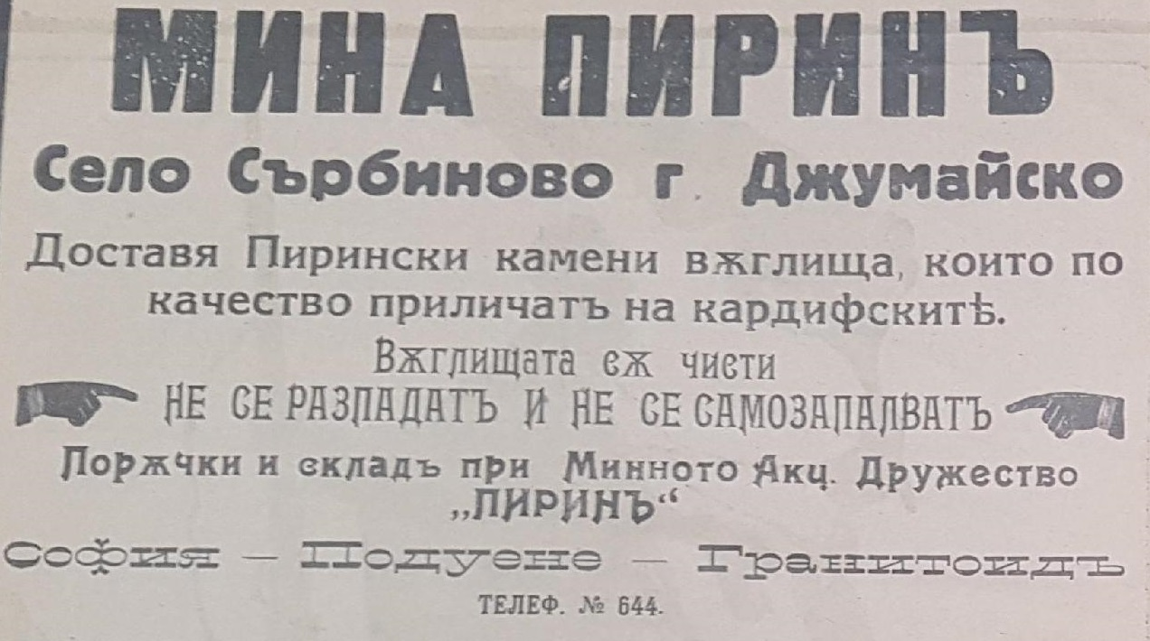 Pirin Mine in Sarbinovo Ad